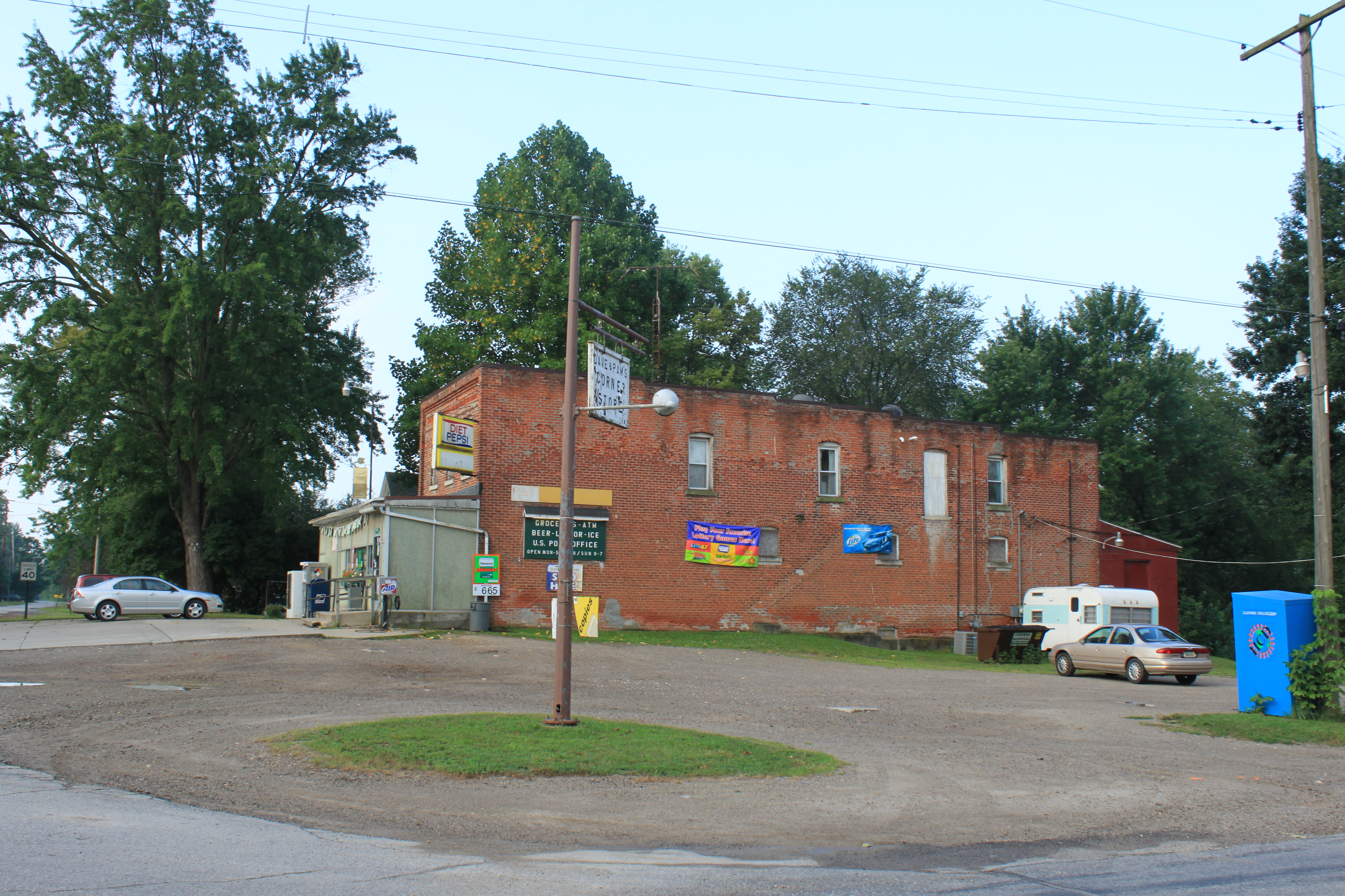 Azalia Michigan, Dave and Pam's Corner Store and US Post Office, 10085 Dundee Azalia Road